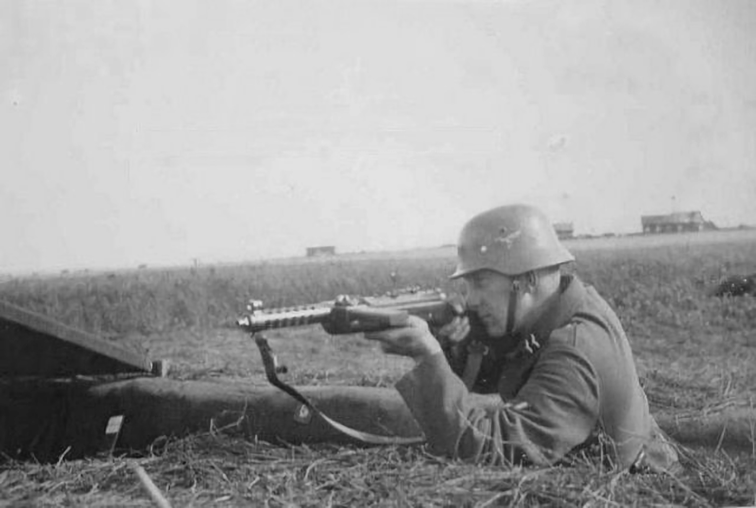 S1-100 smg and german air force troop